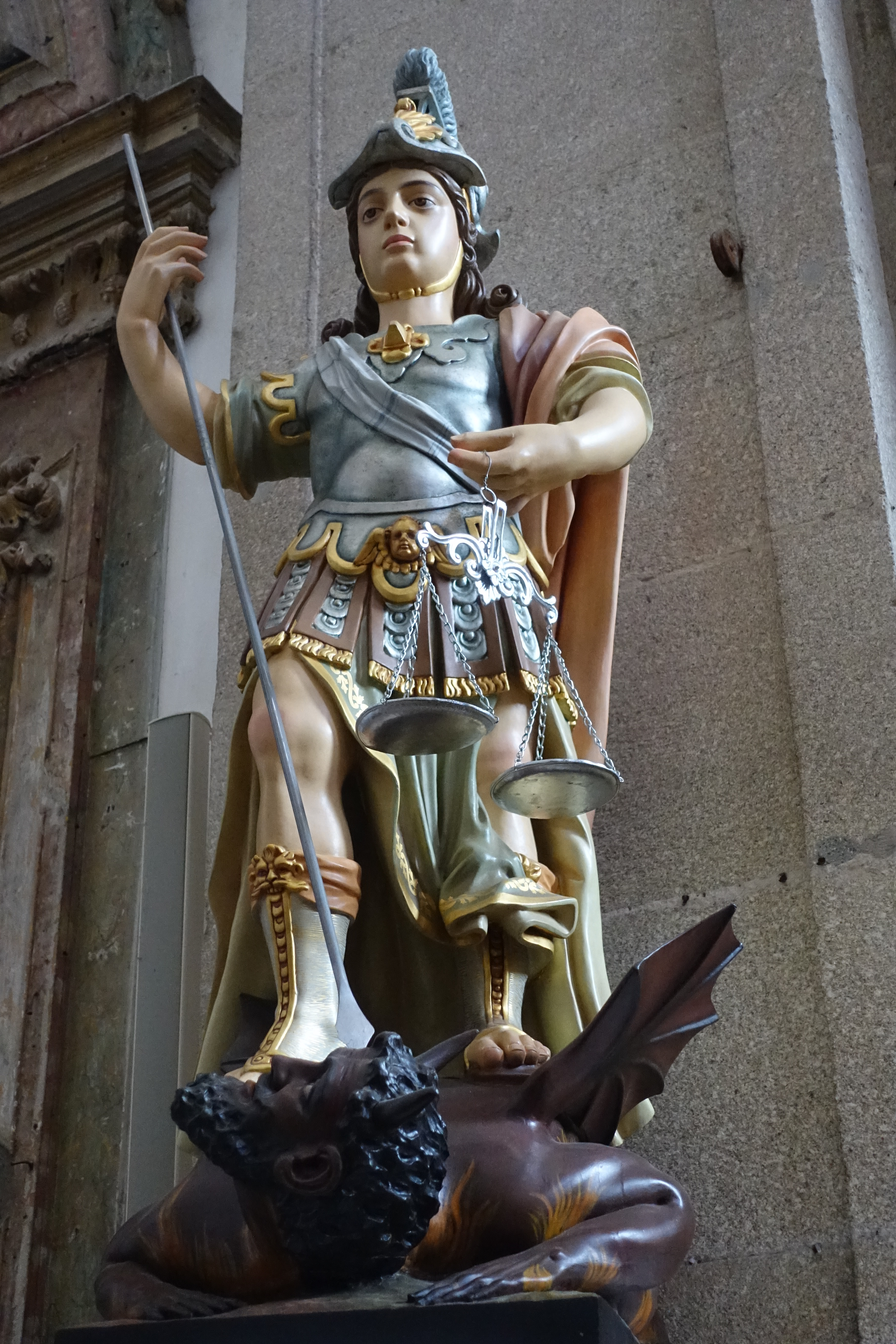 Interior of Mosteiro de São Miguel de Refojos de Basto Portugal.